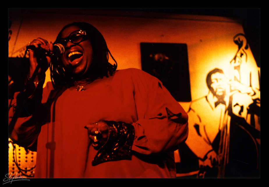 Carole Fredericks in private concert in Dijon (France).